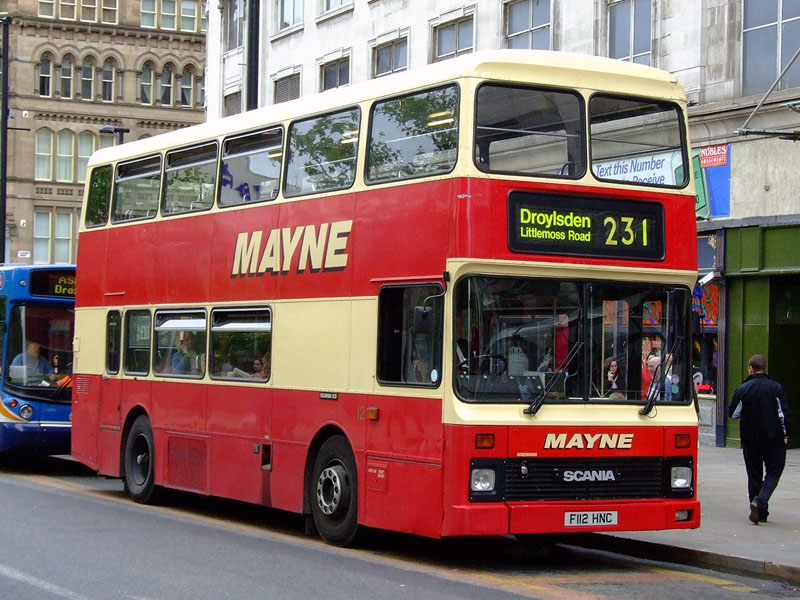 Mayne Coaches 12 (F112 HNC), a Scania N113/Northern Counties Palatine I, in Manchester on route 231.